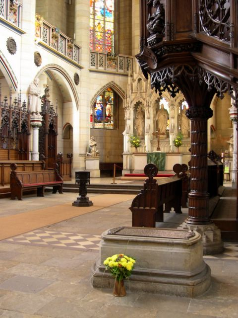 Martin Luther's tombstone in the Castle Church in Wittenberg.